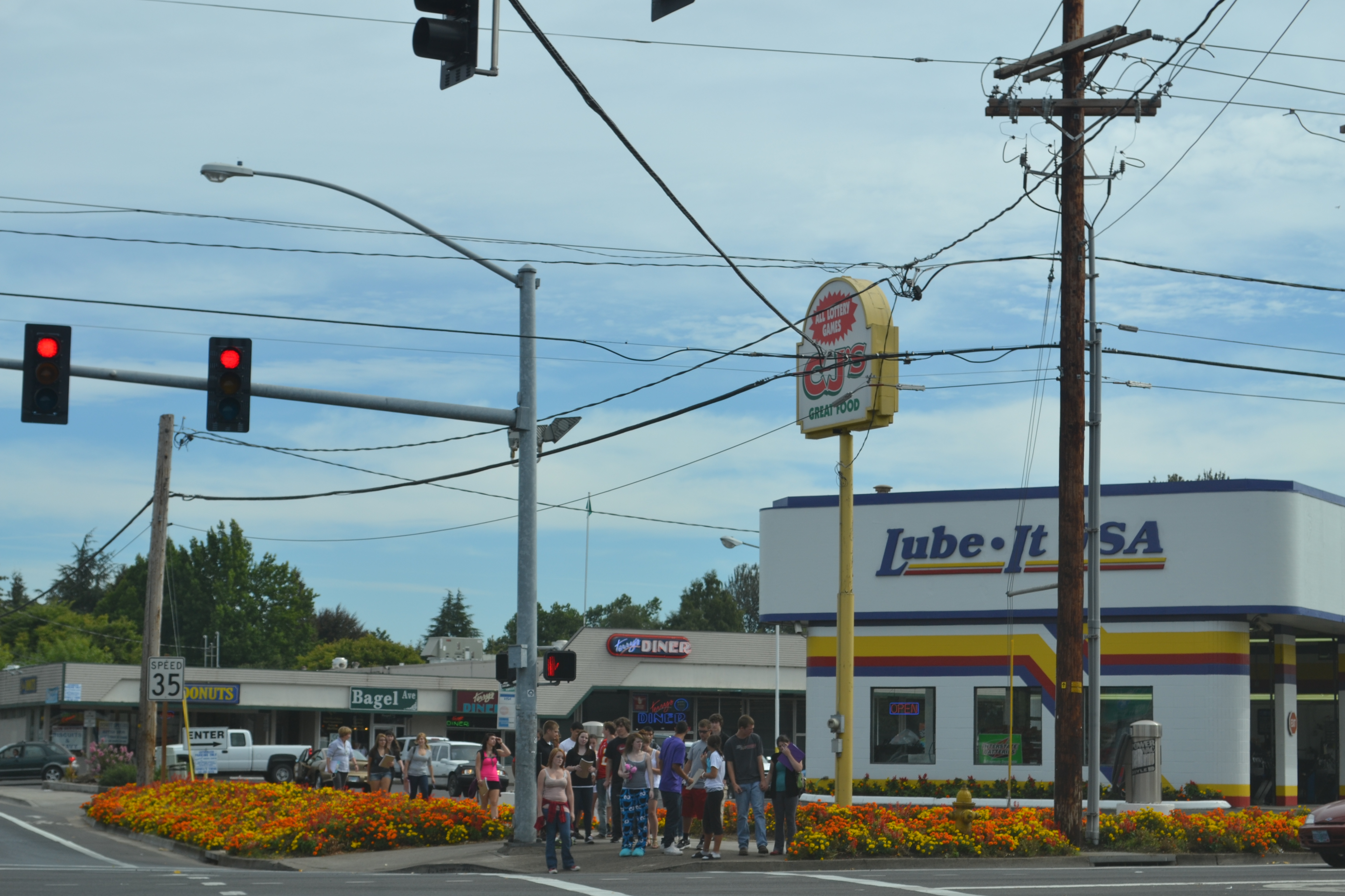 River Road at River Avenue (Eugene, Oregon)